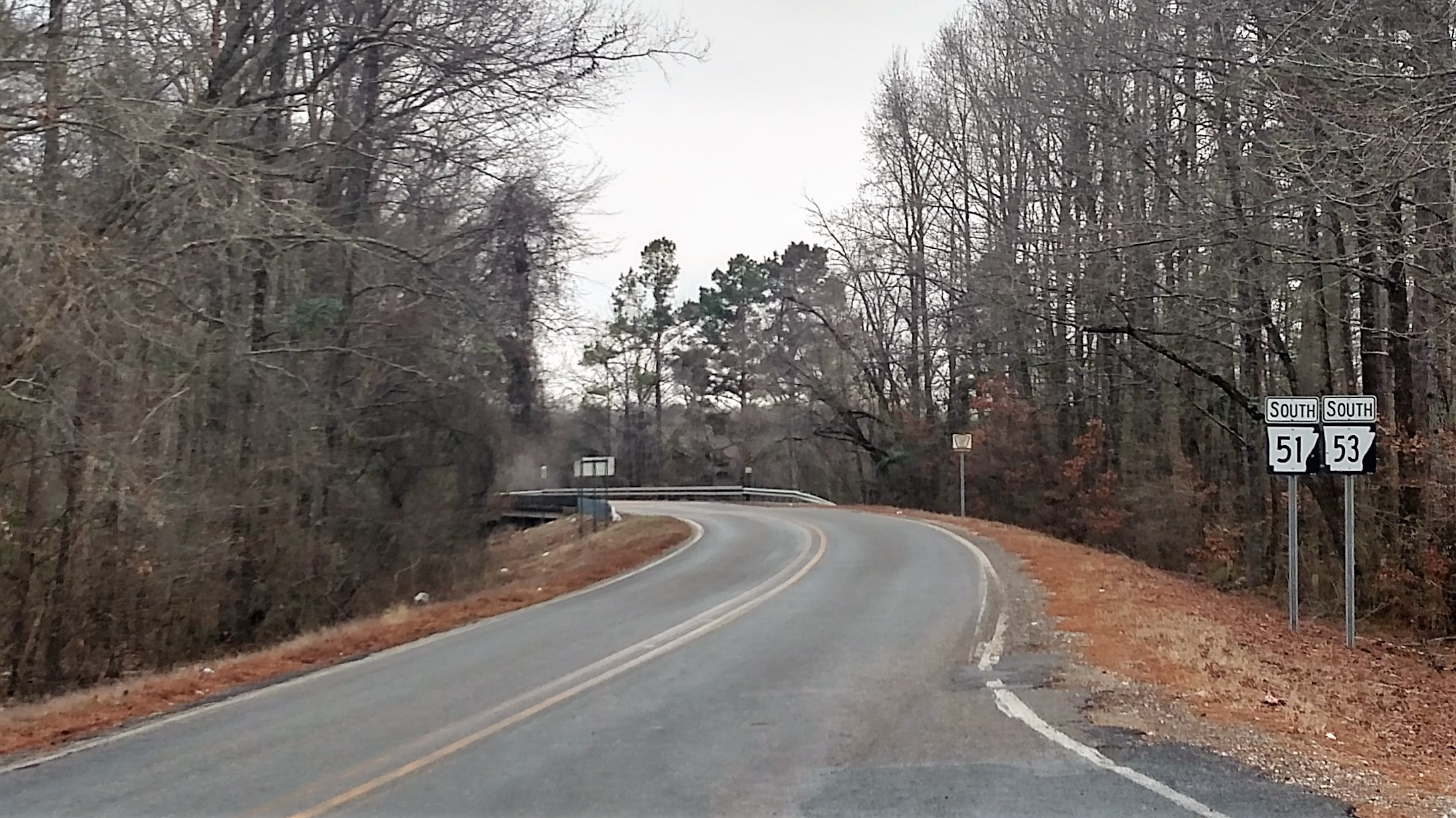 Highway 51 and Highway 53 overlap in Clark County, Arkansas